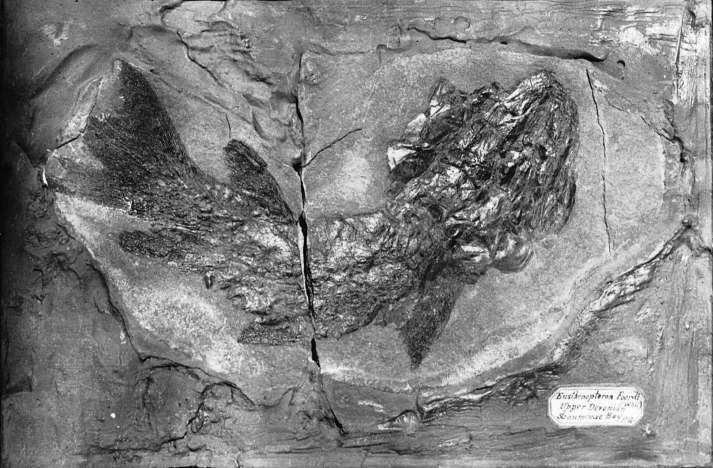 Photograph, "Eusthenopteron Foordi" fossil, from Scaumenac Bay, QC, about 1900, Ferrier, Silver salts on glass - Gelatin dry plate process - 12 x 17 cm